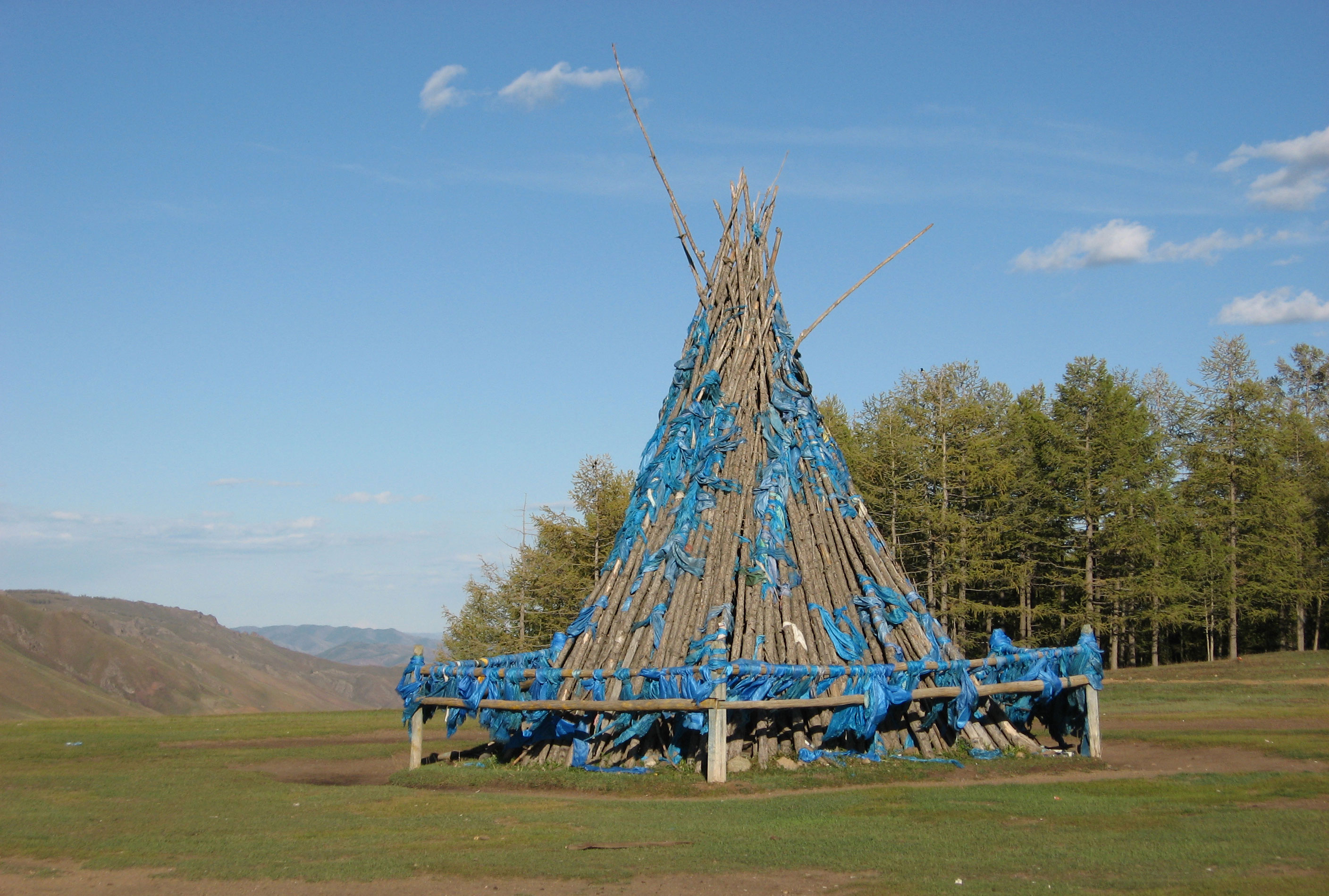 An ovoo at Tsagaan Burgasnii Davaa, a well-frequented mountain pass south of Mörön, Khövsgöl, summer 2007.